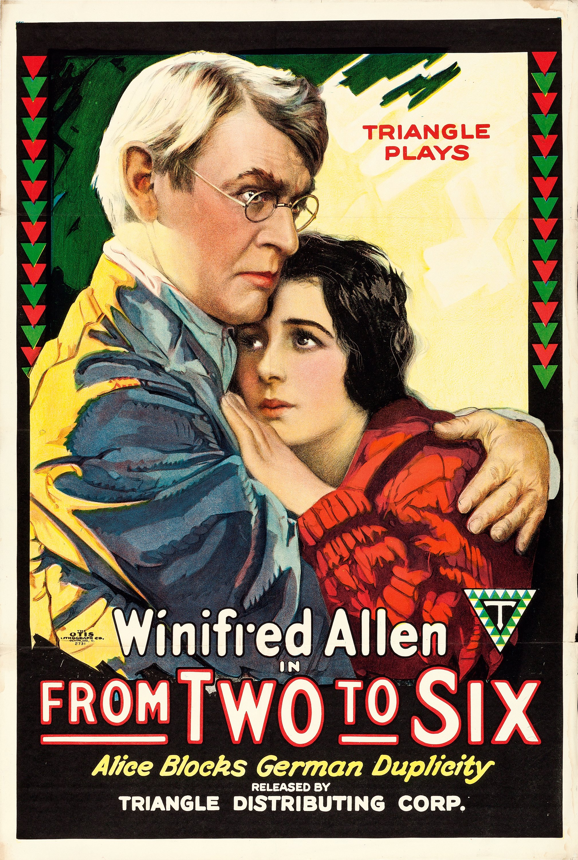 This is a poster for the 1918 American silent comedy-drama film From Two to Six.